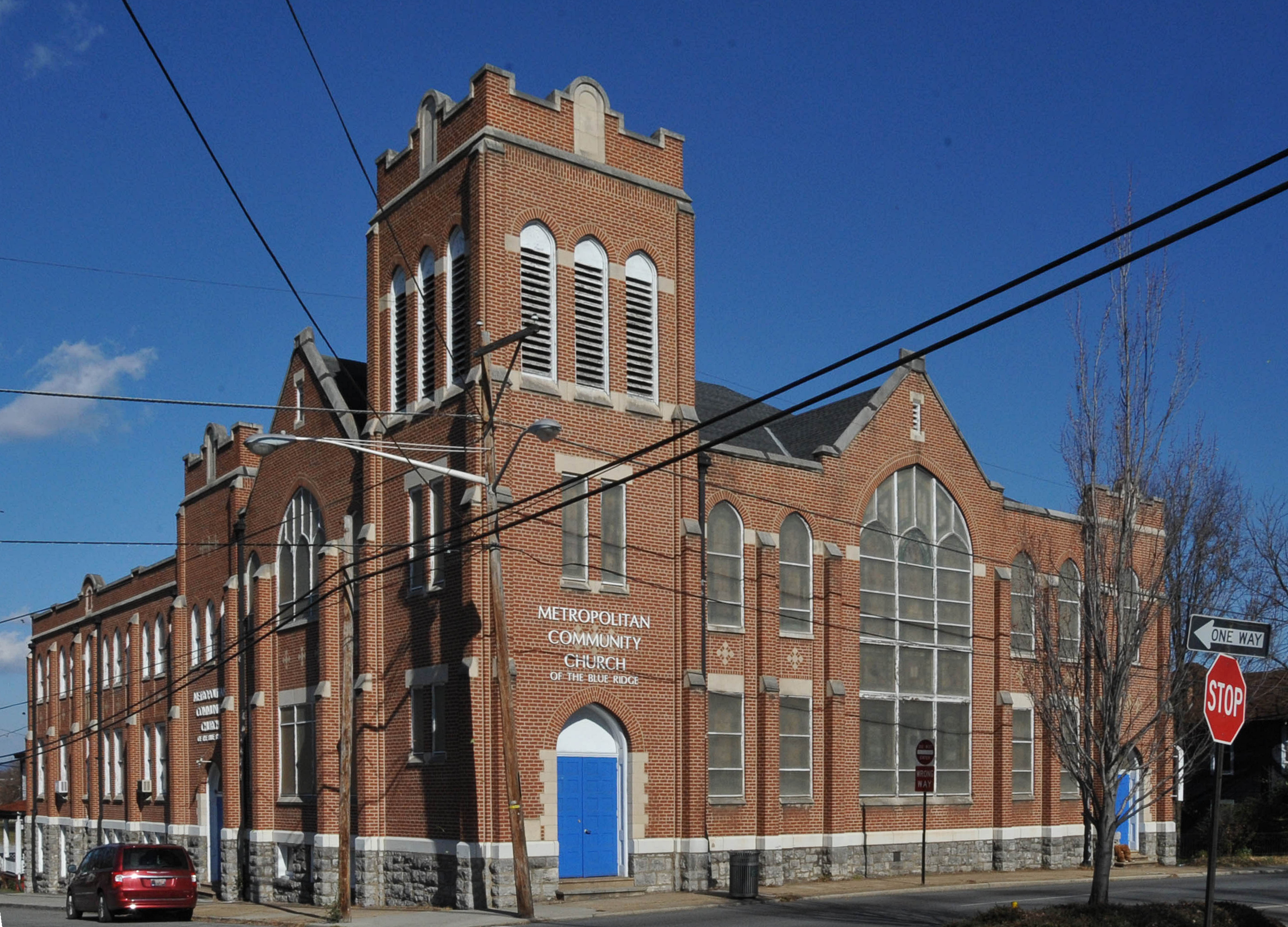 AKA METROPOLITAN COMMUNITY CHURCH OF THE BLUE RIDGE; BUILT 1917-1921 IN LATE GOTHIC REVIVAL STYLE